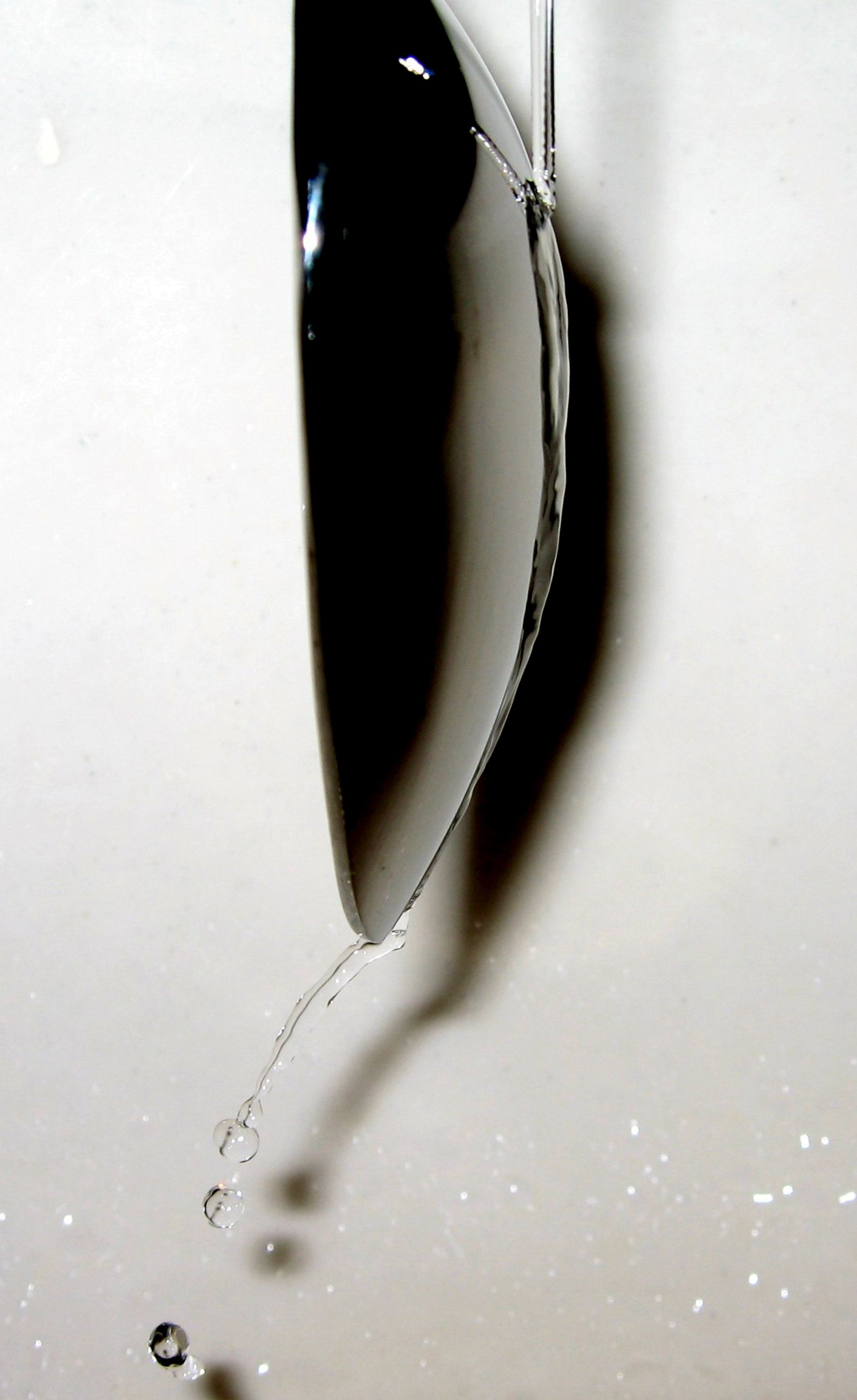 Coanda effect as demonstrated with a spoon and a water stream.